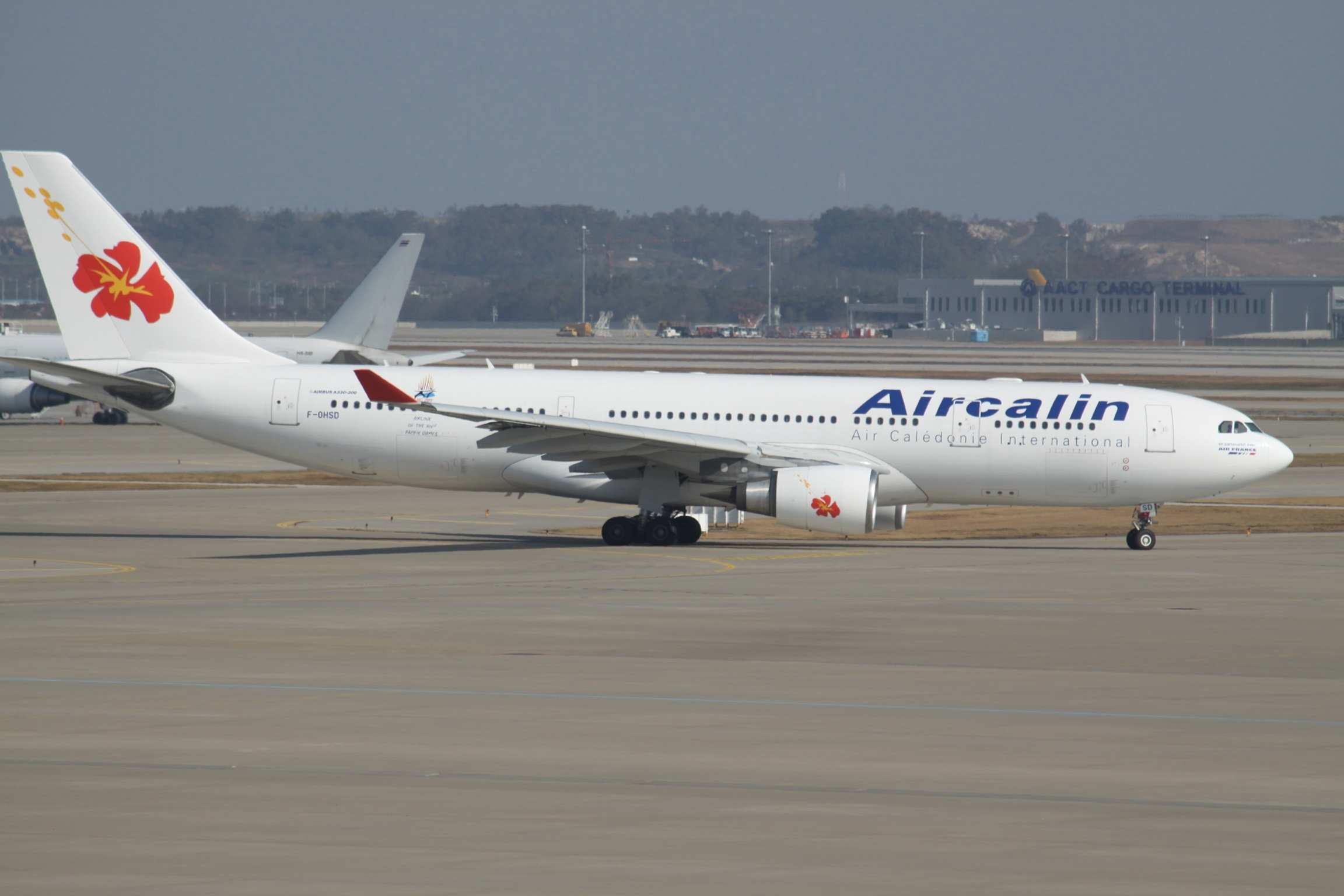 At Seoul Incheon International